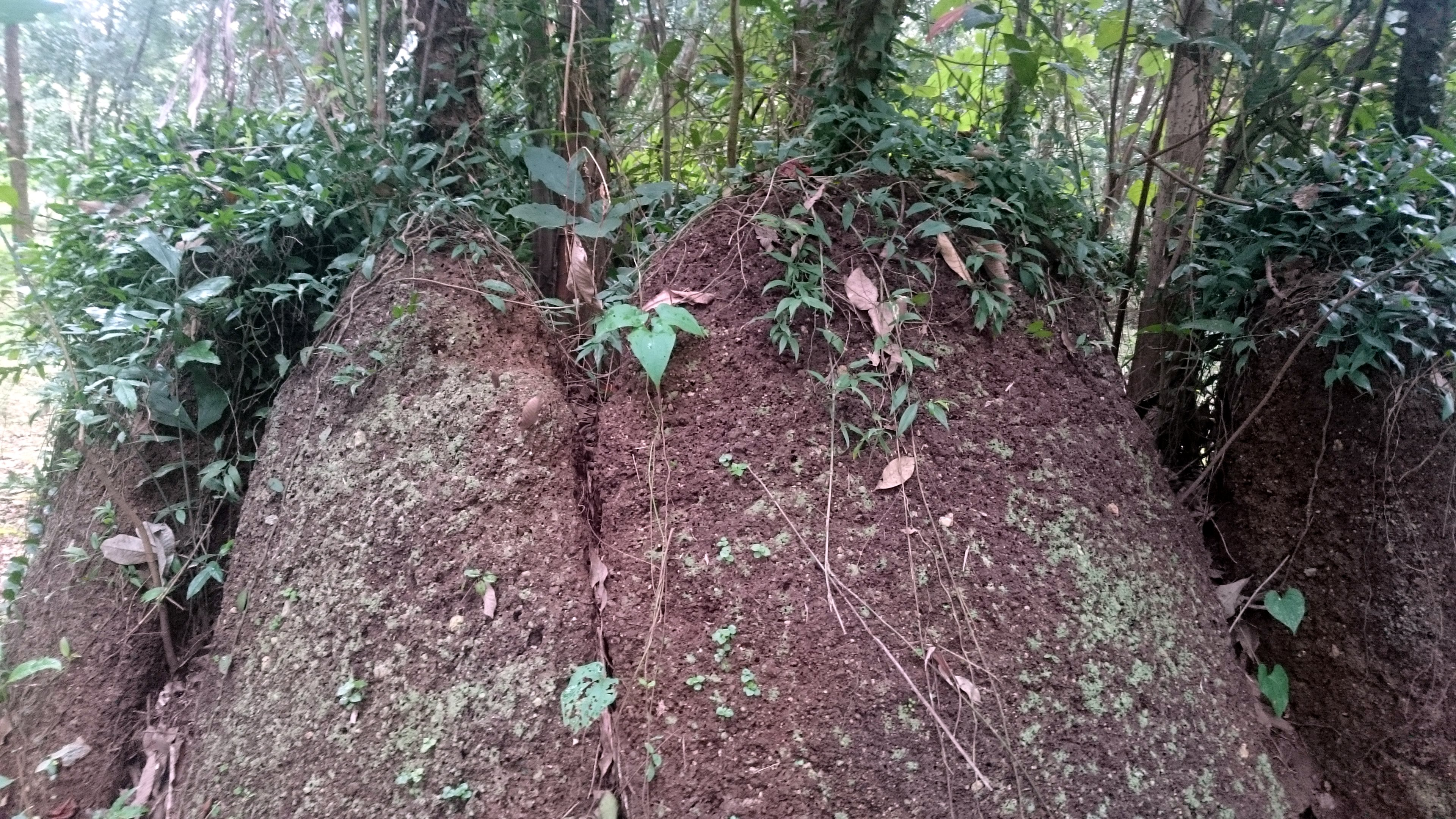 Nannangadikal, (Urn burials) found in Ottapalam, Palakad